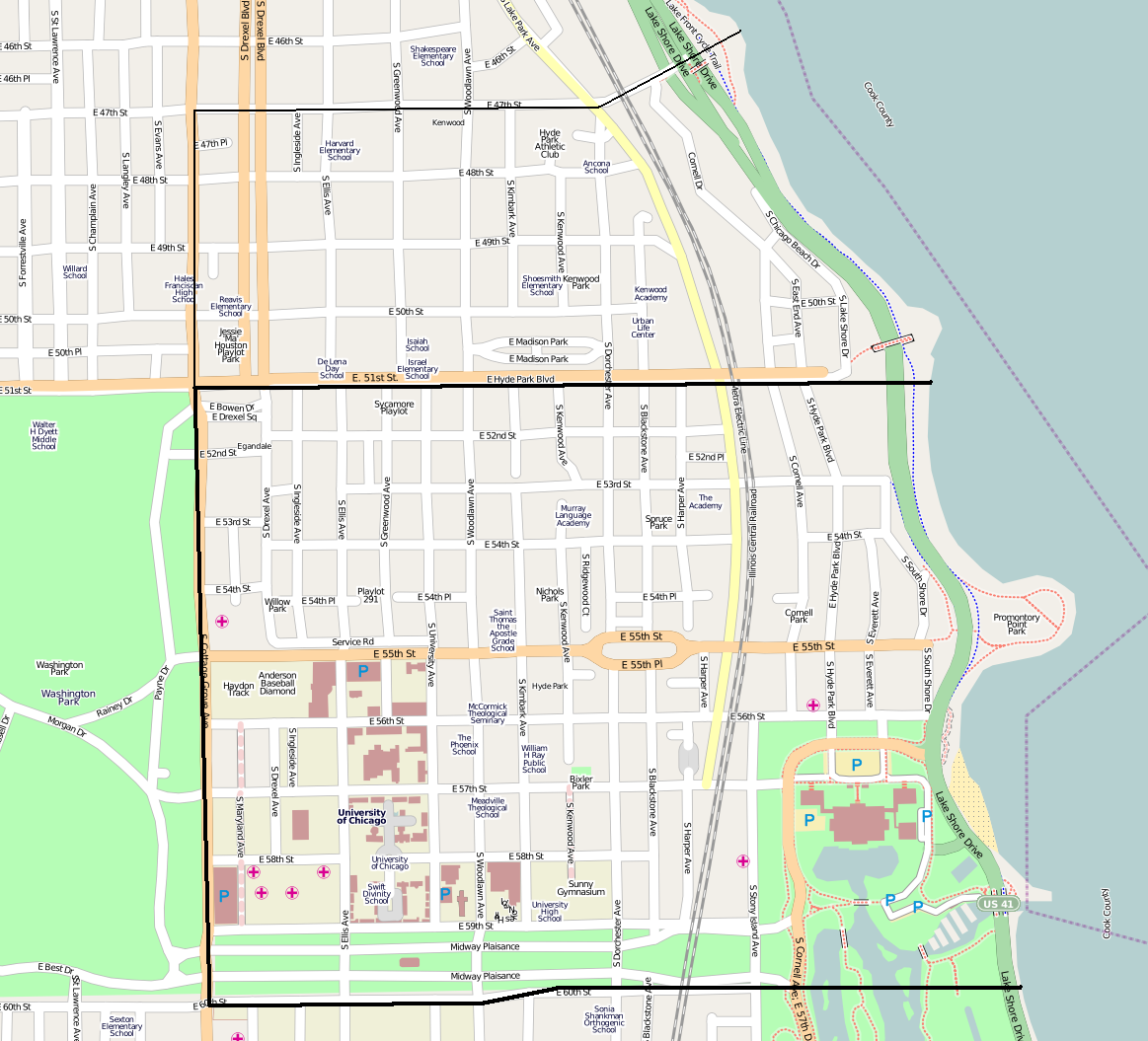 Hyde Park, Chicago map This map may be incomplete, and may contain errors. Don't rely solely on it for navigation.